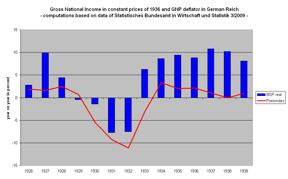 Gross national product in German Reich around World Depression